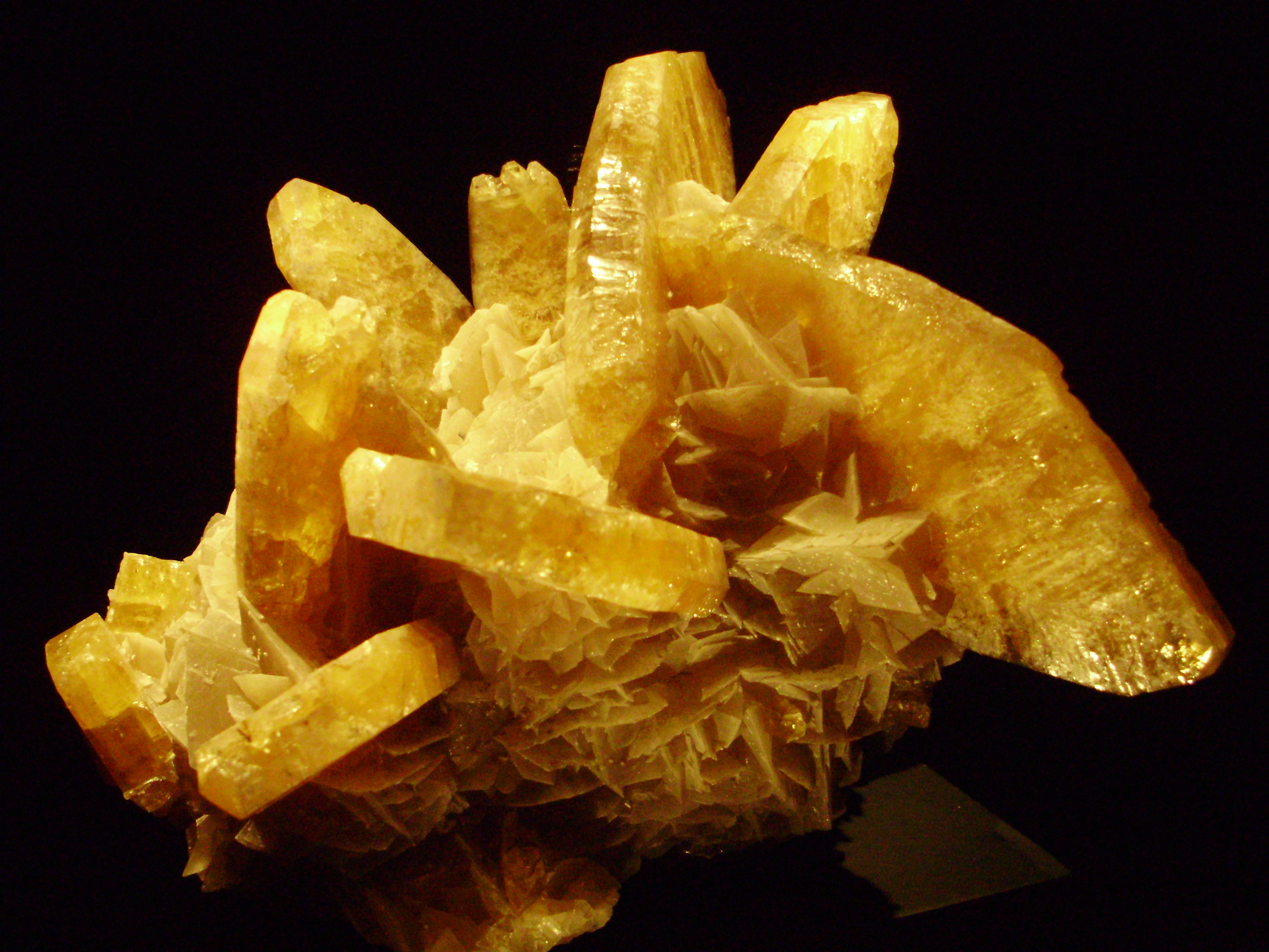 Barite crystals at the Pacific Museum of the Earth.